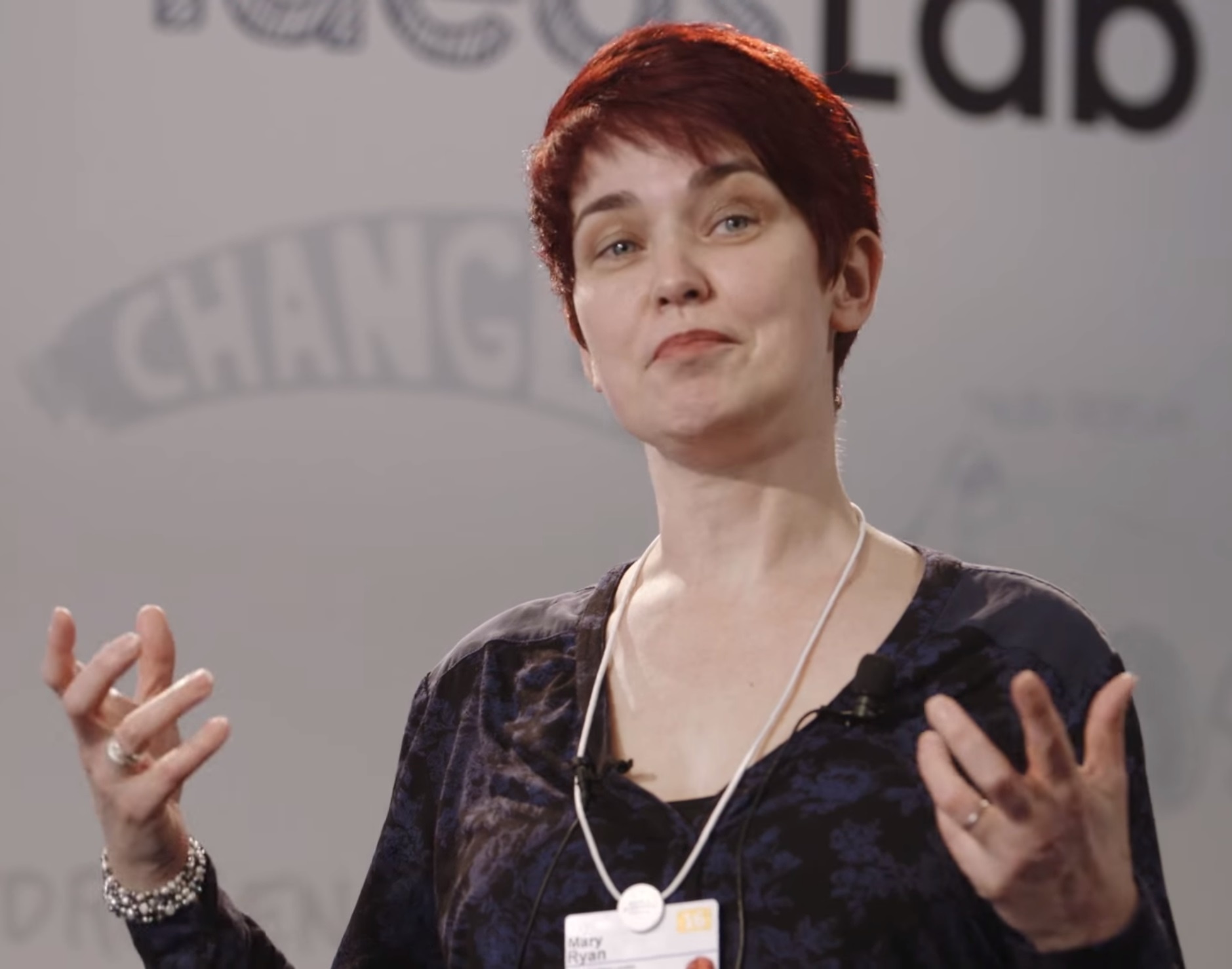 Instead of seeing waste heat generated by machines as a problem, we should see it as a resource. Mary Ryan, Professor of Materials Science and Nanotechnology at Imperial College London, explores the potential to deploy new nano-composite materials in solutions such as using heat from a vehicle’s engine to power its air conditioning.